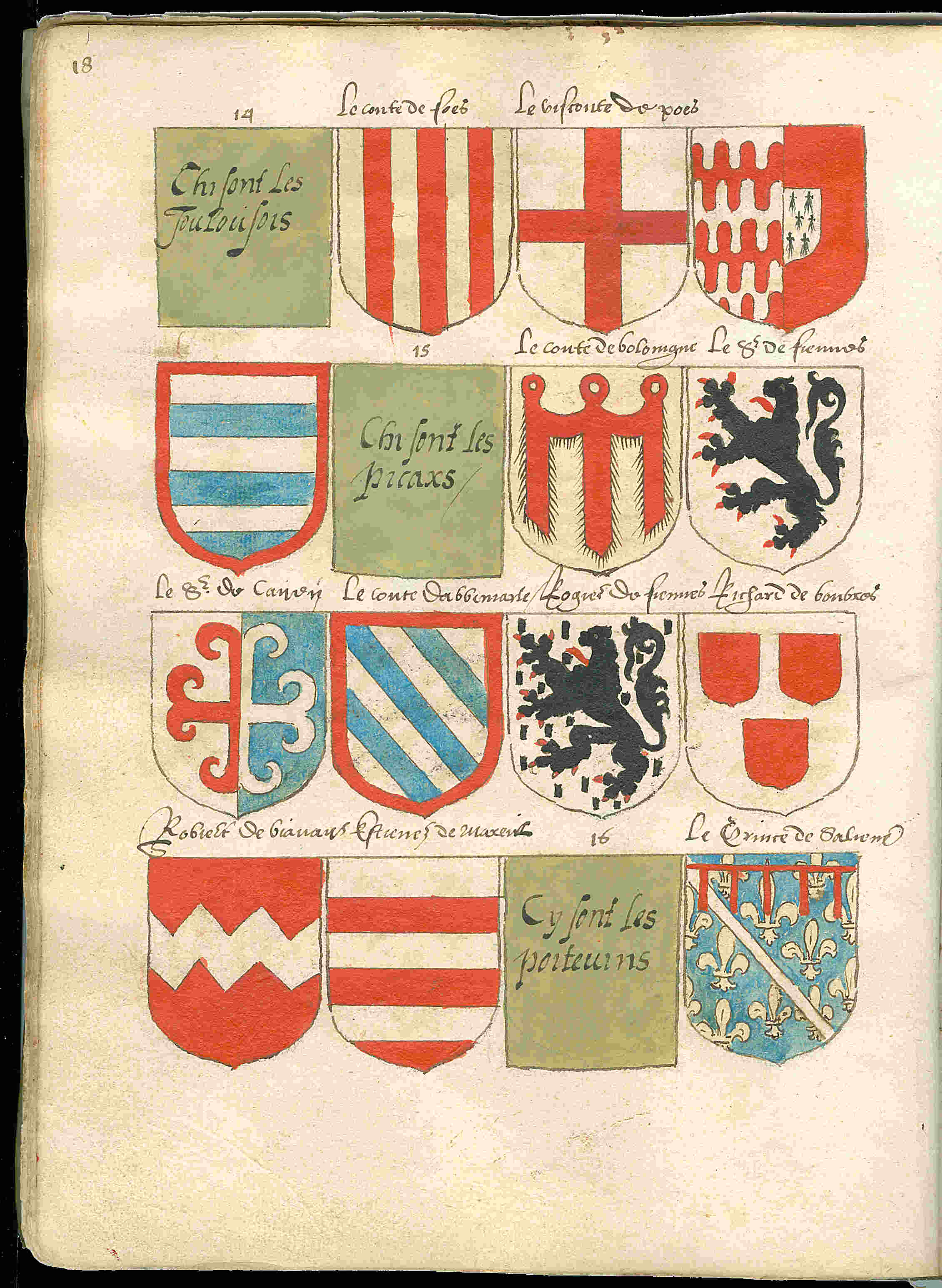 Page 18 from a copy of the Beyeren armorial / Wapenboek Beyeren from ca. 1600. The original Beyeren armorial from 1405 can be viewed at the website of the KB